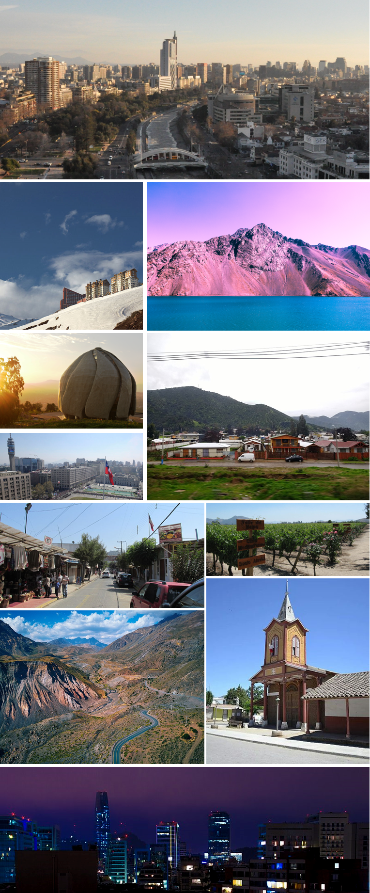 Clockwise: 1. View of the Santiago city center from the side of Providencia towards the west. 2. El Yeso Dam. 3. Homes in the small city of Curacaví. 4. Concha y Toro vineyards, in the Maipo Valley. 5. Church in the town of Villa Alhué, commune of Alhué, the least populated commune in the region. 6. Skyline of Santiago's financial district, in the northeast zone of the city. 7. Cajón del Maipo canyon. 8. Sale of handicrafts in a street in the town of Pomaire, commune of Melipilla. 9. Chile's largest national flag on the main avenue of the city center, known as Alameda, in front of La Moneda palace. 10. Bahá'i Temple, commune of Peñalolén, standing on the urban limits of Santiago. 11. Valle Nevado ski resort, one out of many in business in the Metropolitan mountain area.